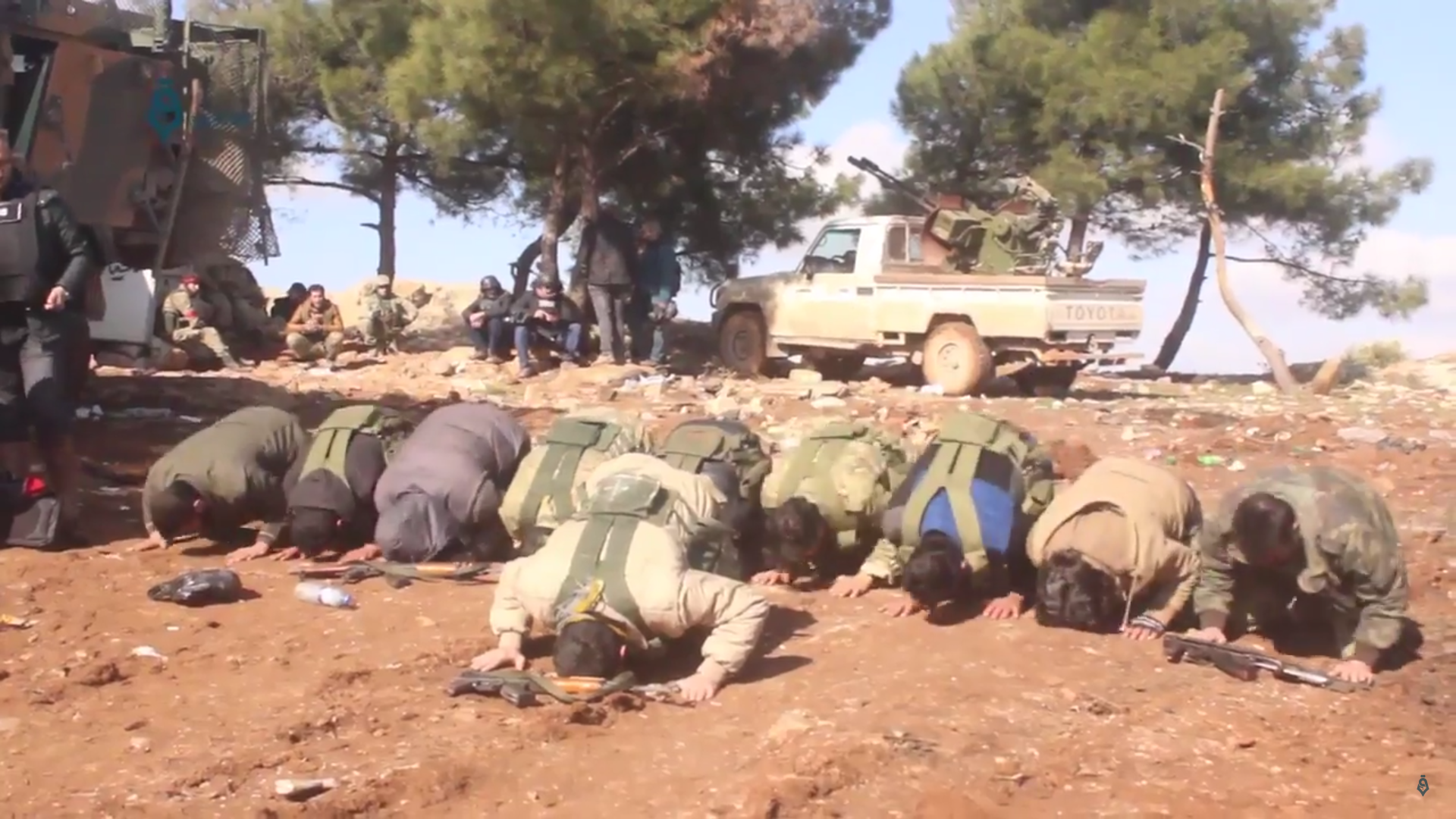 TFSA fighters praying after capturing Barsaya mountain.